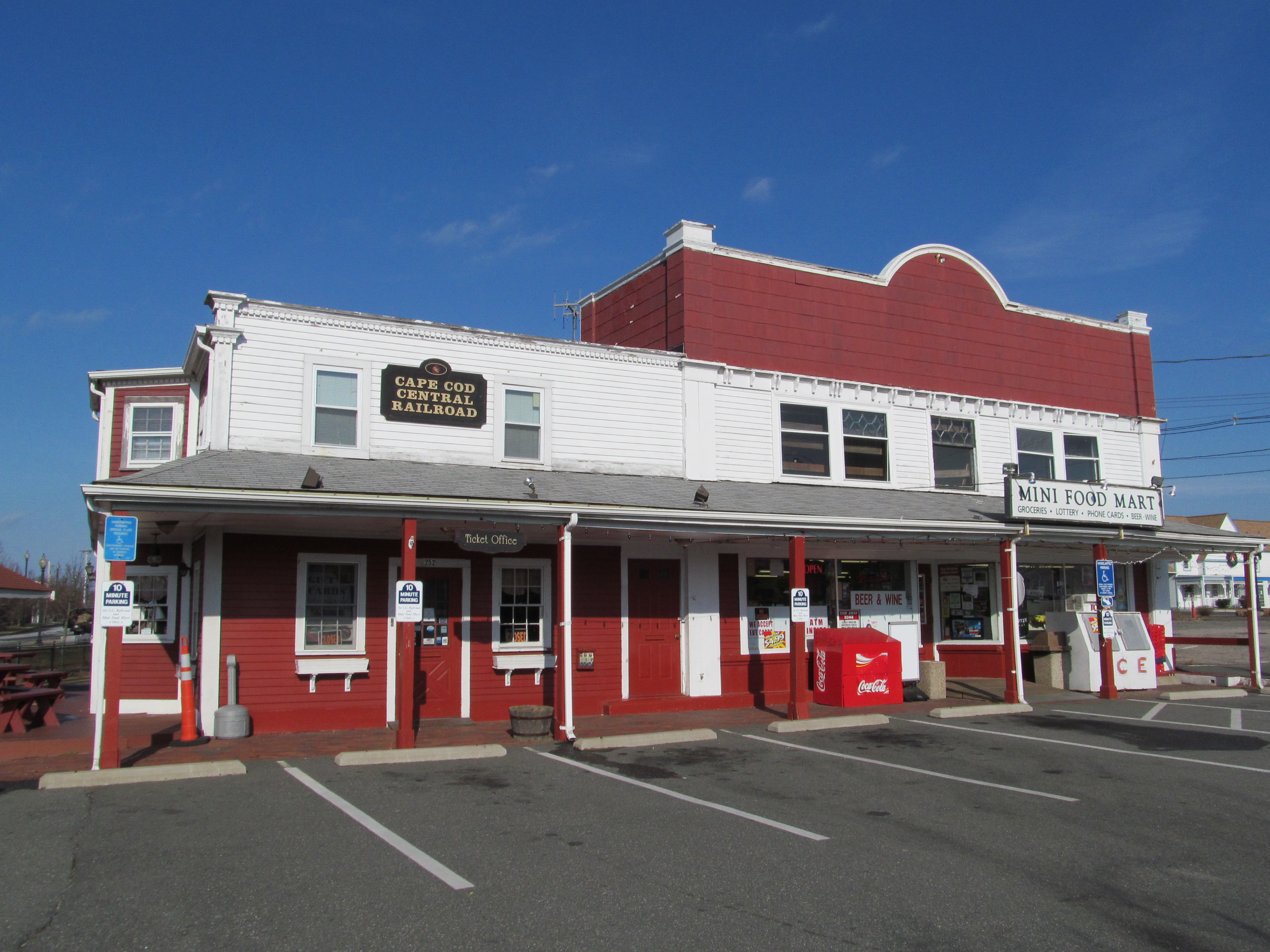 Hyannis Station, Hyannis Massachusetts